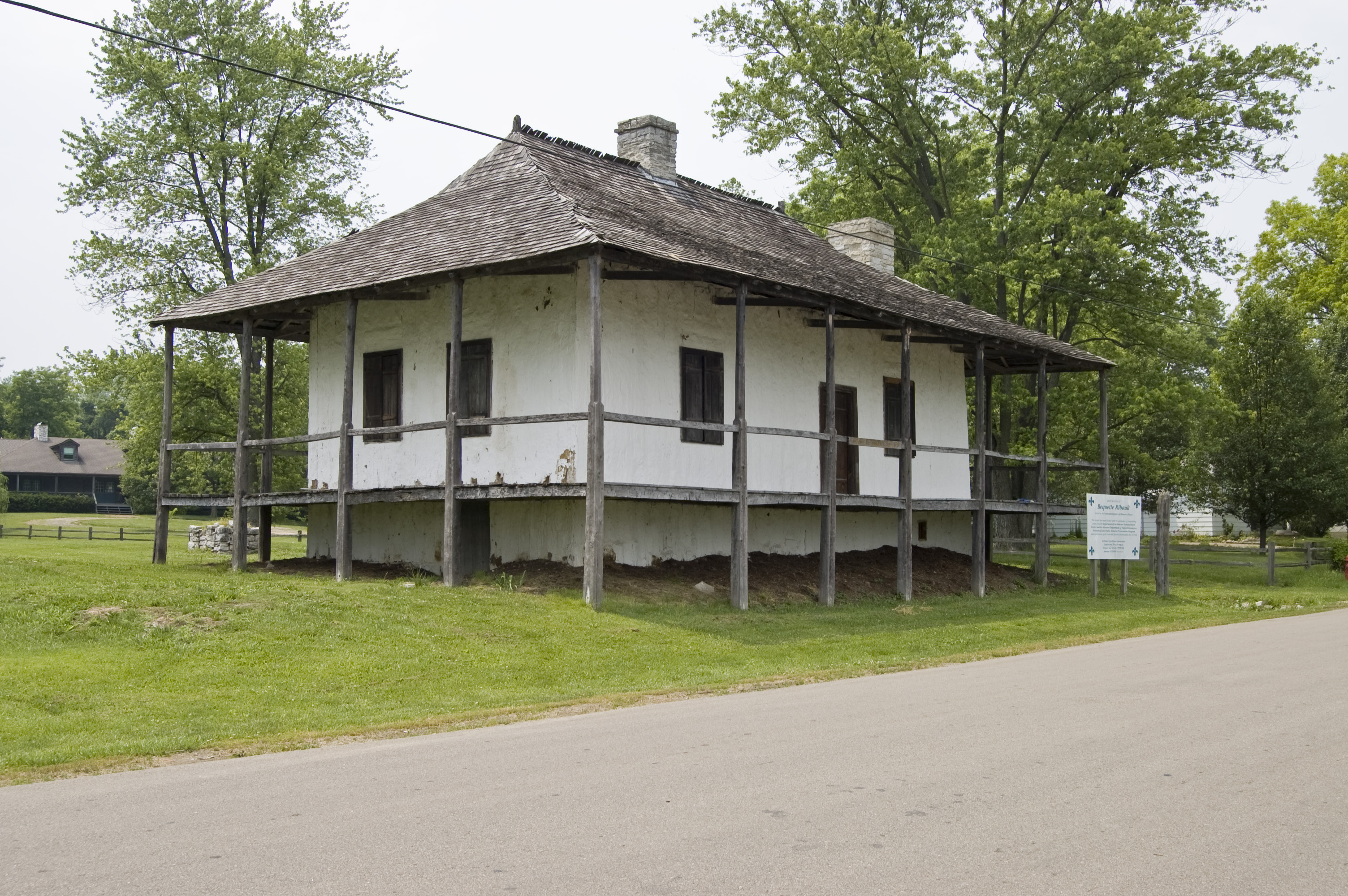 The Bequette-Ribault House is an example of Poteaux-en-terre construction. It is located in Ste. Geneviève, Missouri.